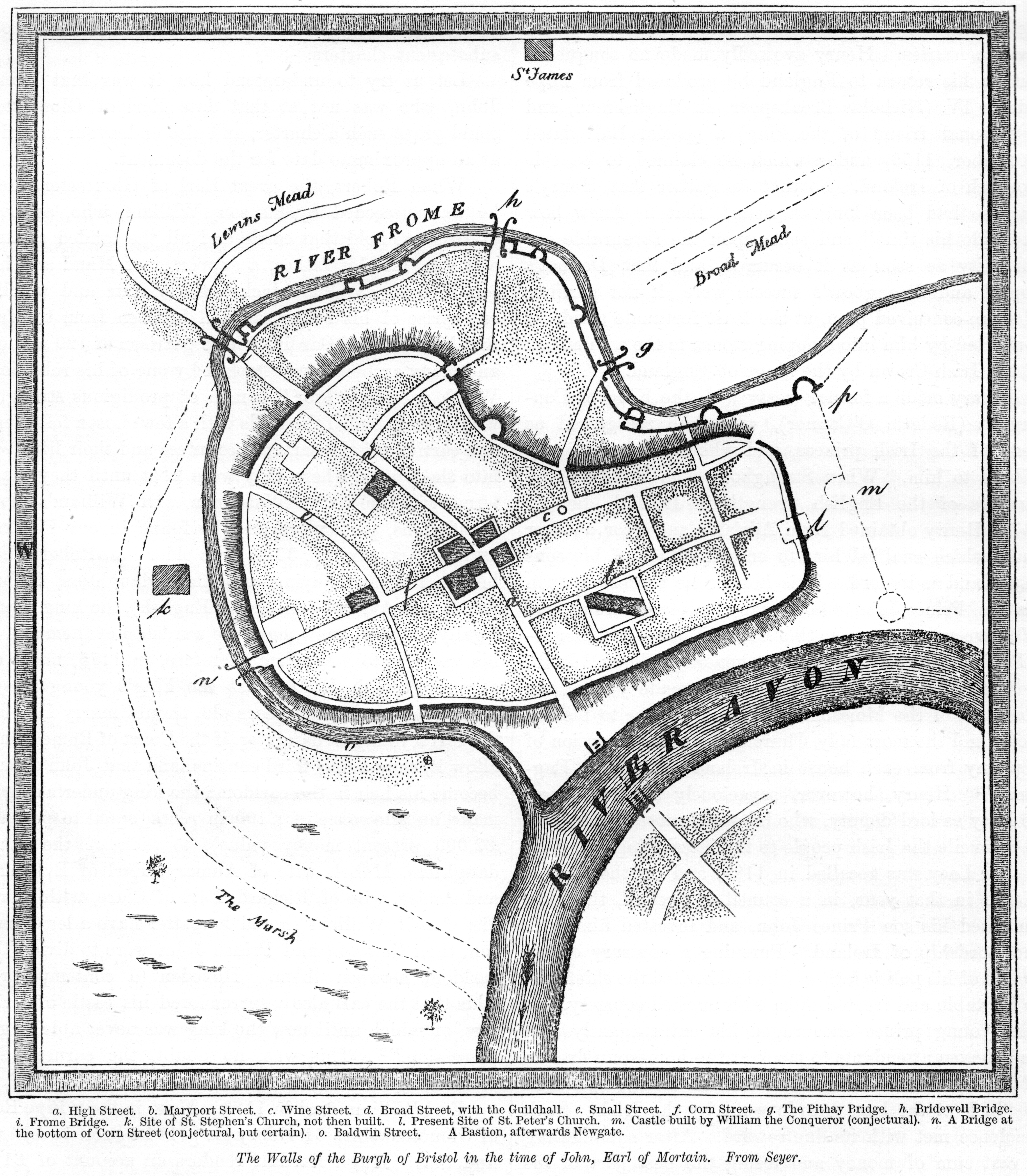 Bristol Castle in the time of John, Earl of Mortain (King John of England) from Samuel Seyer's History of Bristol